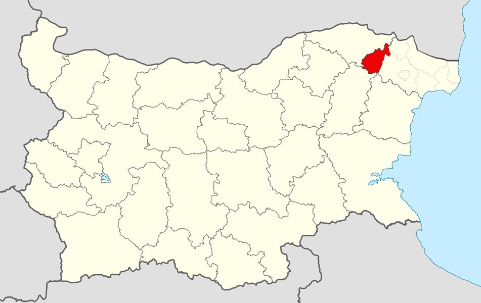 Location map of Tervel Municipality within Bulgaria and Dobrich Province. Equirectangular projection, N/S stretching 130 %. Geographic limits of the map: N: 44.4° N S: 41.1° N W: 22.1° E E: 28.9° E